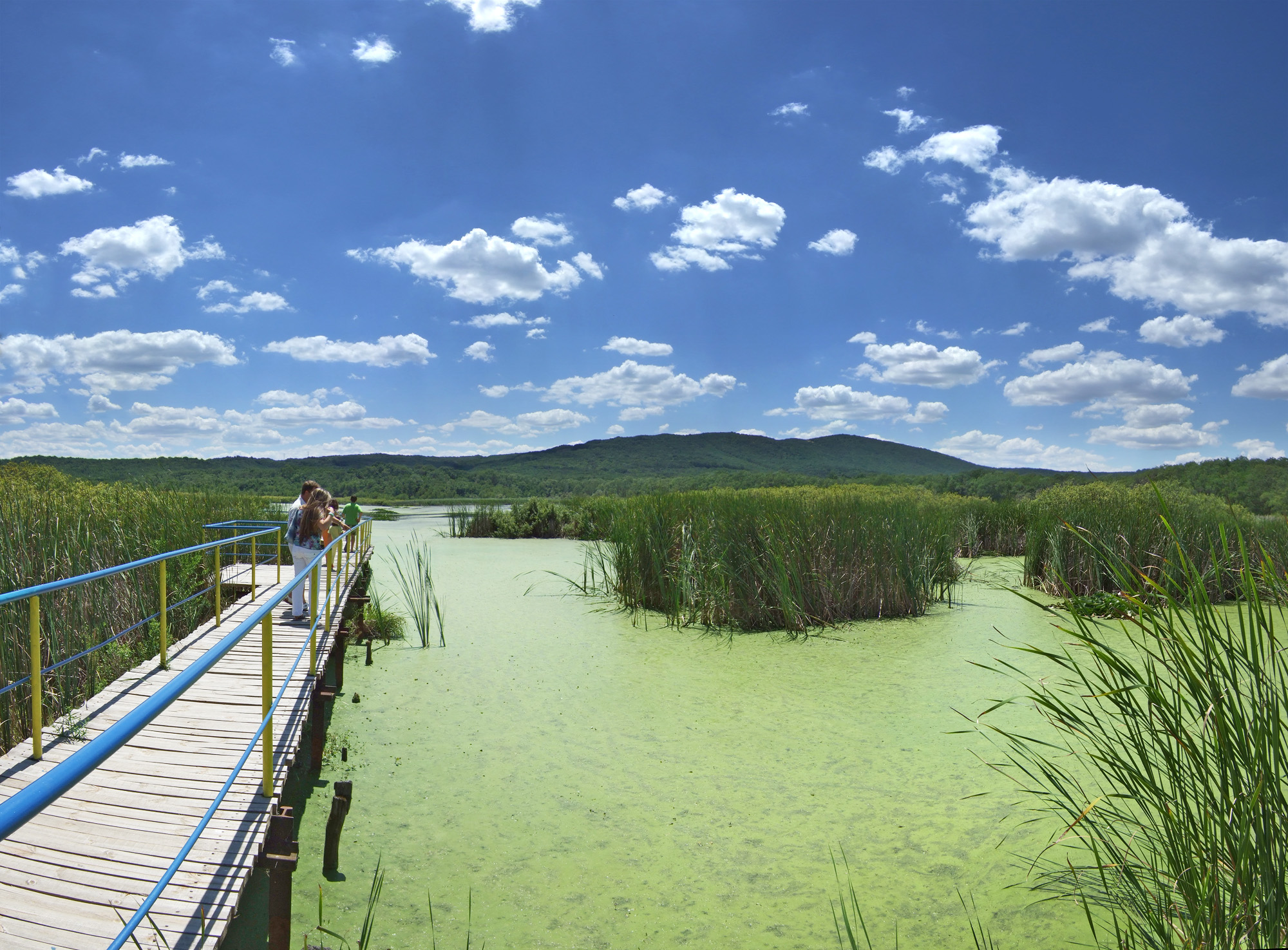 Тхе water lily reserve Arkutino, Bulgaria